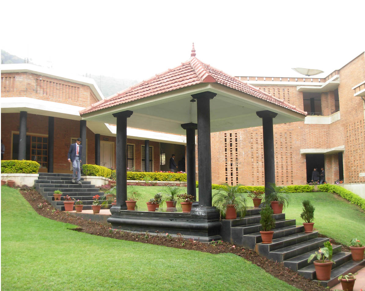 College of Engineering, Munnar